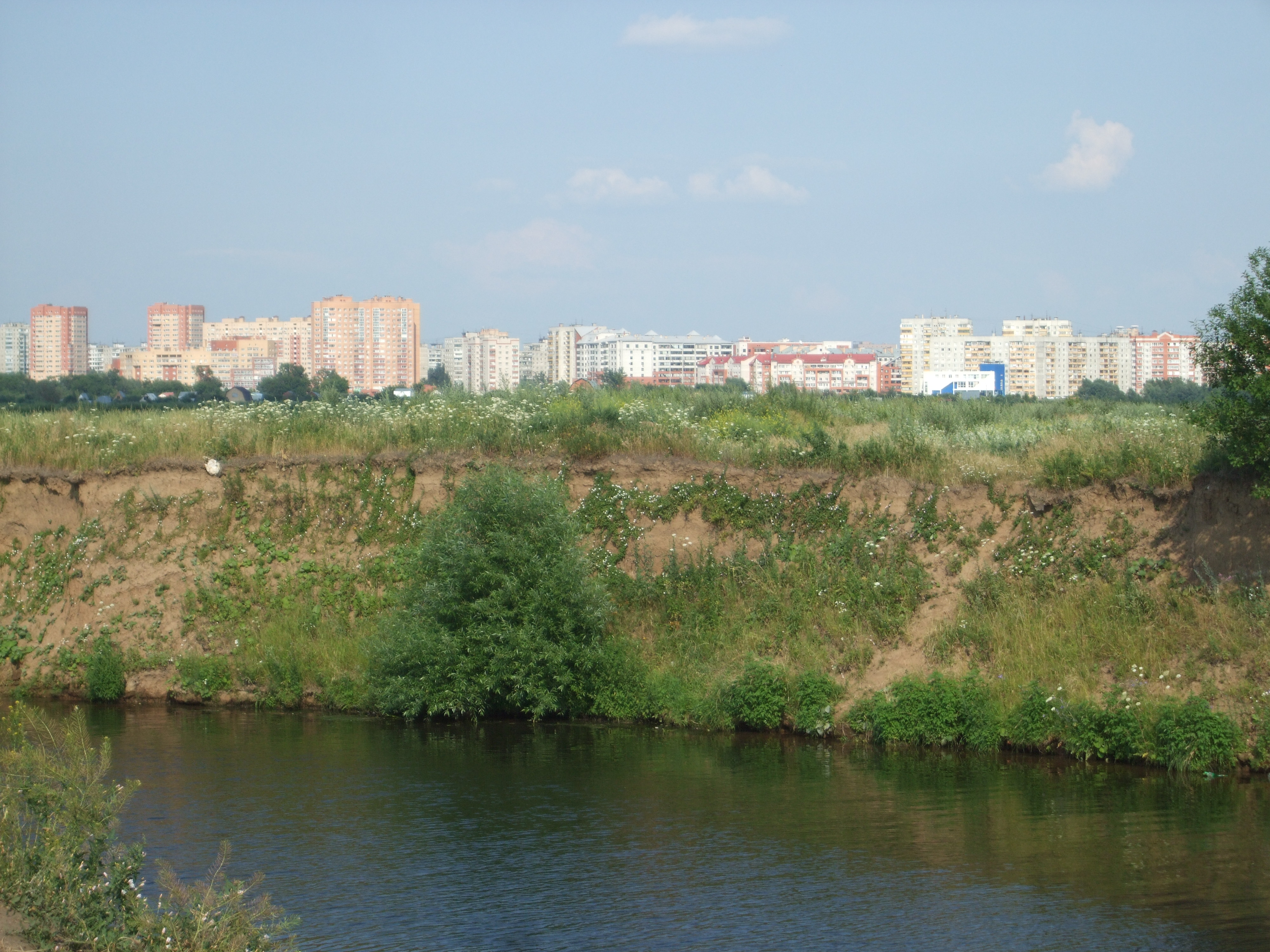 Russia, Moscow Oblast. Pekhorka River near its mouth, view to Zhukovsky city.